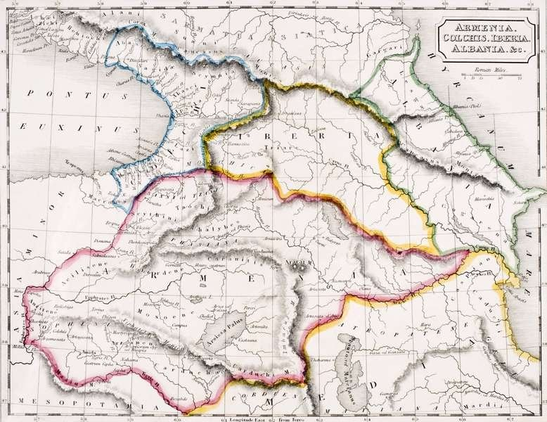 Map of Armenia, Colchis, Iberia and Albania, from 'The Atlas of Ancient Geography', by Samuel Butler, published in London, c.1829